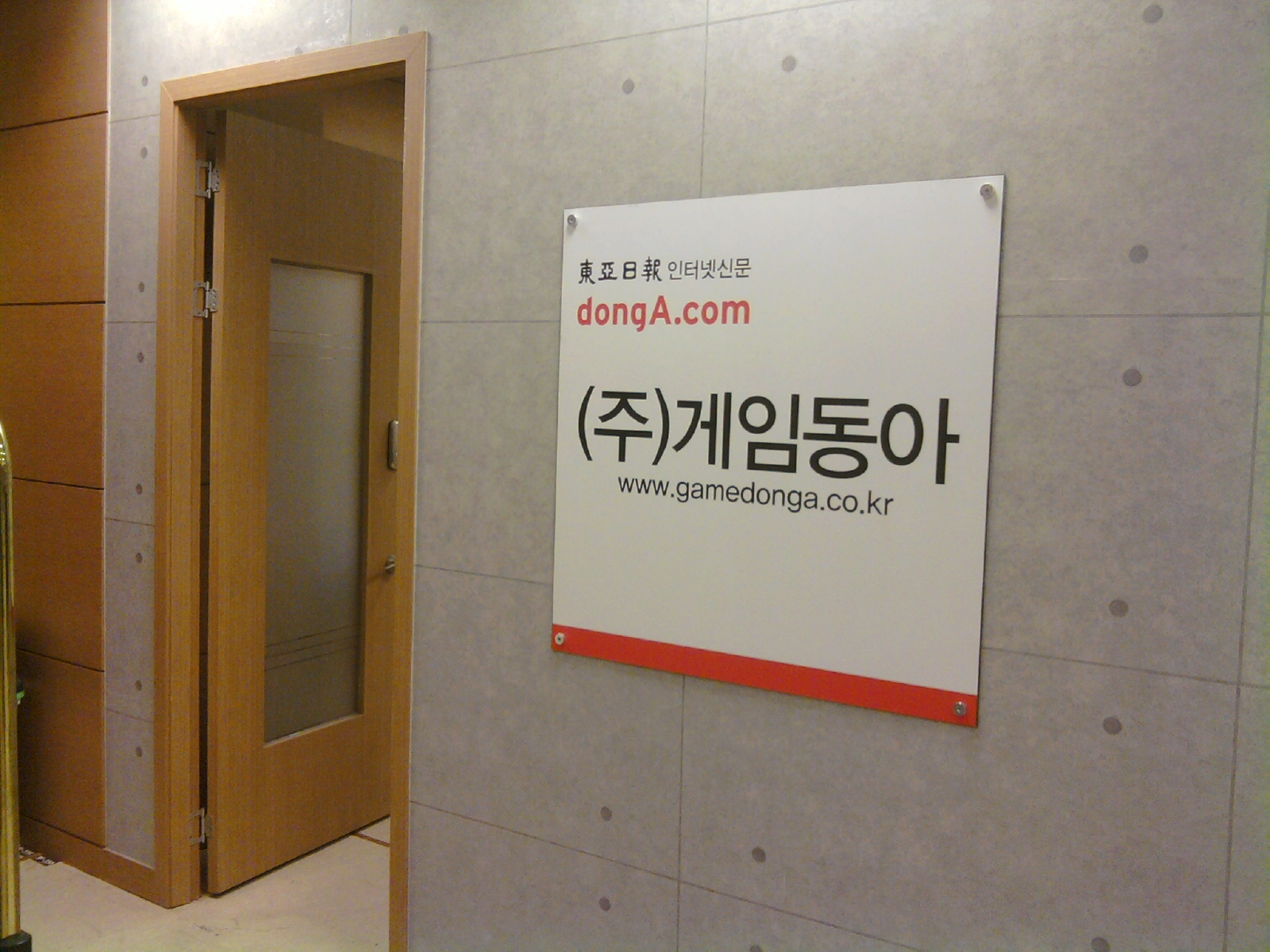 Korean game press. game donga